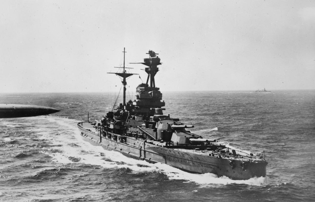 Aerial photograph of British battleship HMS Revenge underway at sea.